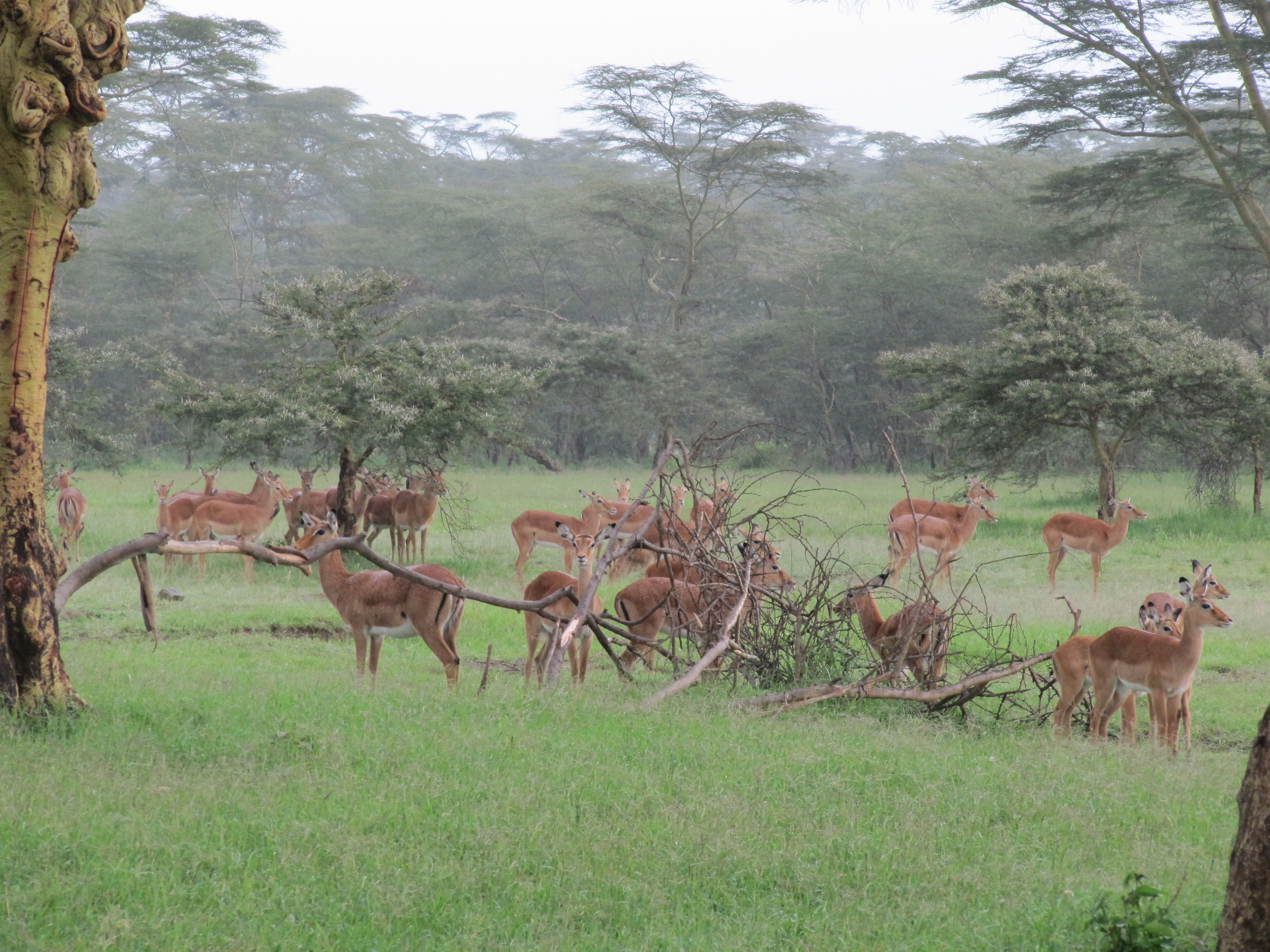 Herd of Impalas in Lake Nakuru National Park, Kenya. The only male is under the tree